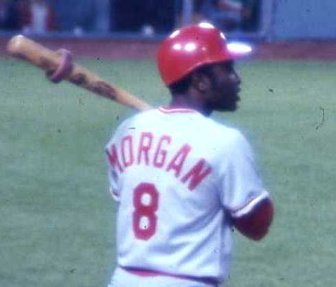 Major League Baseball player Joe Morgan of the Cincinnati Reds.